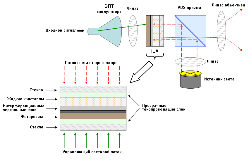 Scheme of ILA (kind of LCoS (Liquid crystal on silicon) Microdevice) Упрощенная схема работы ILA-устройства (разновидность LCoS (Liquid crystal on silicon)